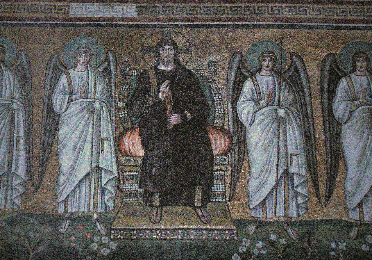 Basilica of Sant'Apollinare Nuovo in Ravenna, Italy: "Christ surrounded by angels and saints" (detail). Mosaic of a Ravennate italian-byzantine workshop, completed within 526 AD by the so-called "Master of Sant'Apollinare".